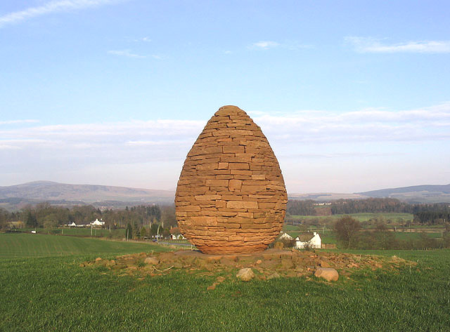 Millennium Cairn Situated a short distance east of Stepends Farm near Penpont with houses at Burnhead in the background. According to a worker on the farm, this was erected to celebrate the new millennium. Taken late in the afternoon on a fine March day. A site visitor adds:- This sculpture is the work of the famous artist Andy Goldsworthy who lives in nearby Penpont.